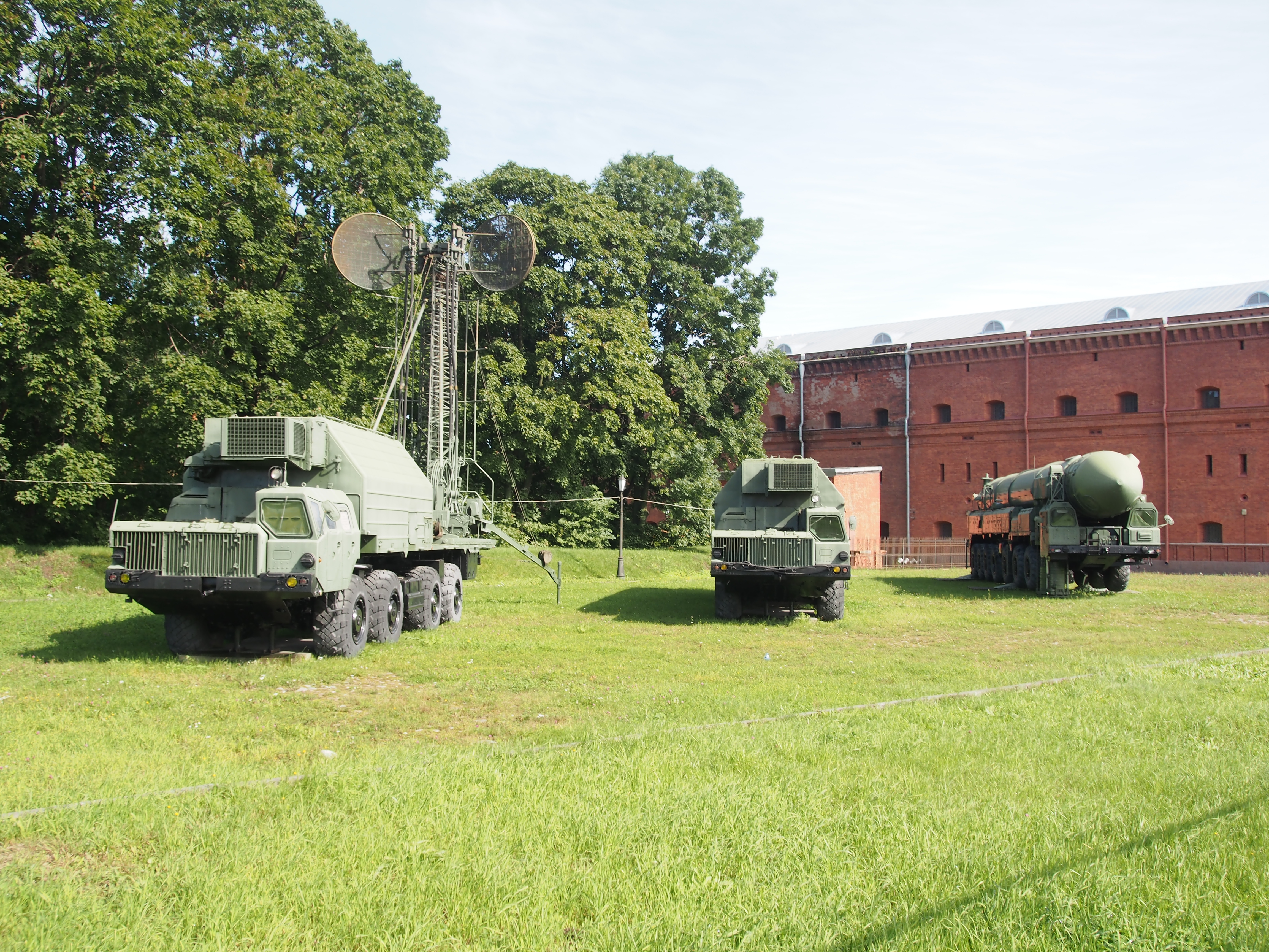 Photographed at the Military-historical Museum of Artillery, Engineer and Signal Corps, Saint Petersburg.